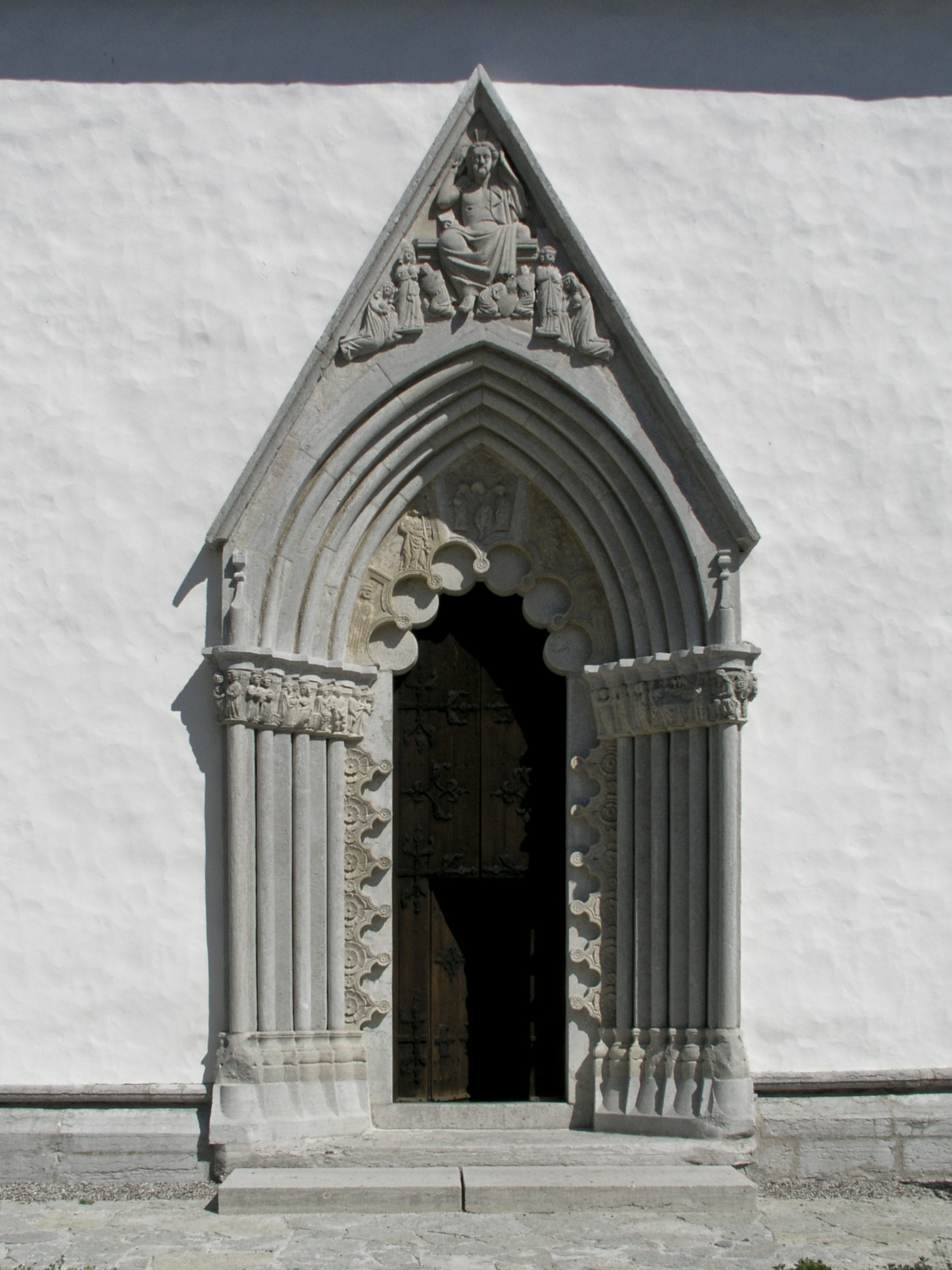 Norrlanda church, Diocese of Visby, Gotland, Sweden. Portal